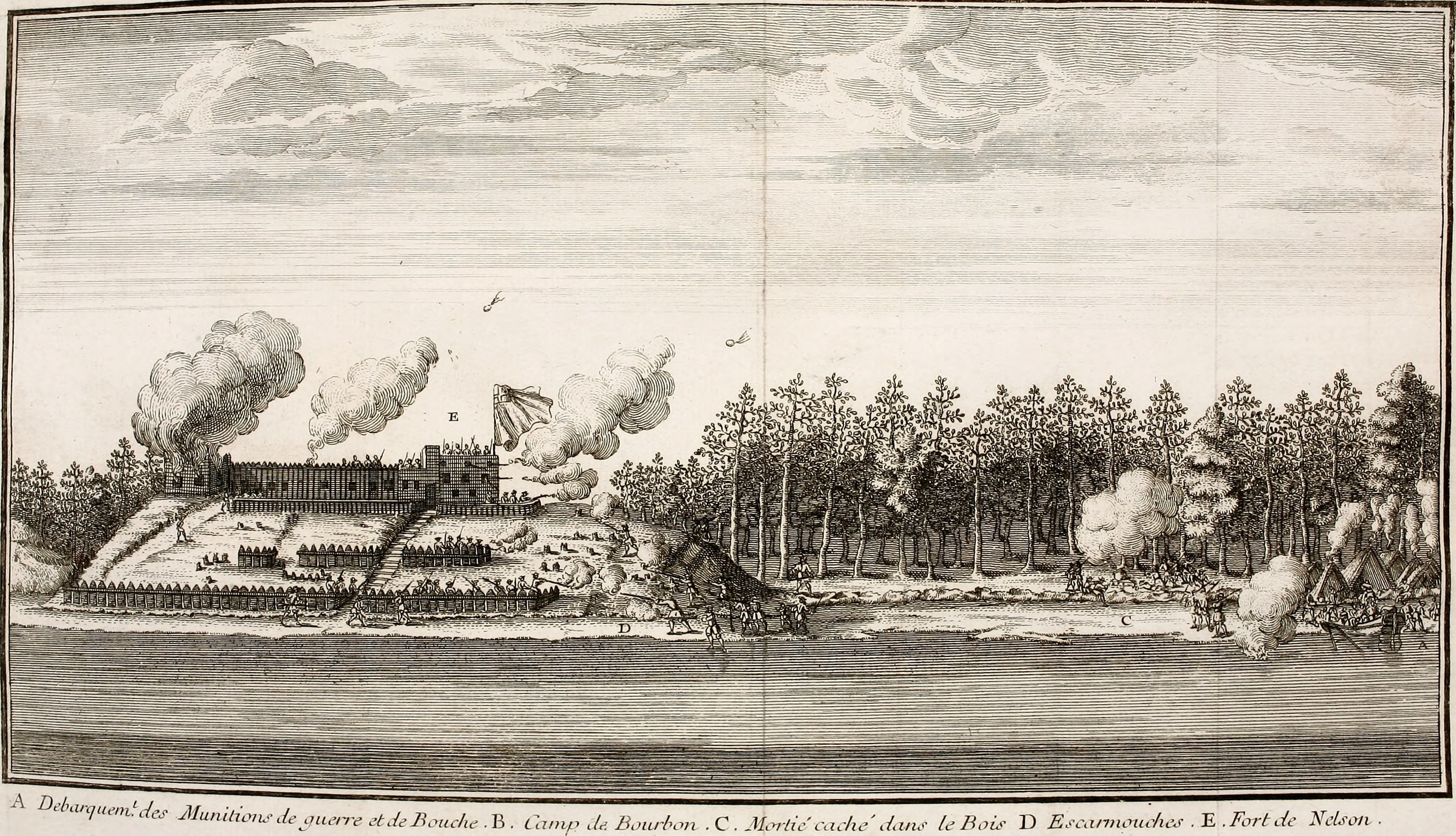 Attack of Fort Nelson/York Factory (Fort Bourbon) in 1697 by D'Iberville's troops. Fort taken by D'Iberville on September 13, 1697. Drawing made to illustrate the fighting in Newfoundland and Hudson Bay during the war of the League of Augsburg (1688-1697). Drawing published in 1722 then in 1753. Translation of letters ; A : disembarkation of ammunition and food. B : French camp called Camp Bourbon. C : Mortar hidden in a wood. D : Skirmishes. E : Fort Nelson (York Factory). Title: Histoire de l'Amerique Septentrionale : divisée en quatre tomes ... Year: 1753 (1750s) Authors: Bacqueville de La Potherie, M. de (Claude-Charles Le Roy), 1668-1738 Scotin, Jean-Baptiste, b. 1678, engraver Subjects: Bacqueville de La Potherie, M. de (Claude-Charles Le Roy), 1668-1738 Iroquois Indians Indians of North America Publisher: A Paris ... : Chez Nyon fils ... Text Appearing Before Image: Tsin .i.paoe .10J. Text Appearing After Image: VAmtriqm Septentrionalel tofJfc de bouche. Le Weefph envoia le mor.cier dans une chaloupe que commandoit;e Chevalier Montalamber deSerre, gardede la Marine. Ceff un Gentilhomme quisattache extremement a Ton metier. Il aThonneur cTapartenir a Monfieur le Mar-quis de Vilete.. On mit ce roortier a terre ^8c quelque temps apres fur fa batterie.JLes ennemis tirerent beaucoup pendantee debarquemenr dans le camp tk fur leschaloupes. Von coupa chemin la nuit du onze audouze aux Anglois, qui alloient & ve-iioient querir les Marplots de THudfons-baye qui arrivcienrde moment a autre.Xe Gommis de la cornpagnie de Londresy fut tue 3 6t le doure il fe fit encore uneefcarmouche qui dura deux heures. Nous eommencames a bombarder leFort fur les dix heures du matin. Commenous vimes que la troifieme bombe etoittbmbee au pied , Serigni fut fommer leGouverneur de fe rendre. Celui-ci temoi-gna quil ne vouloit point fe faire couperle col 5 aimant mieux fouffrir Fincendiede fa Place que de la rendre: Il